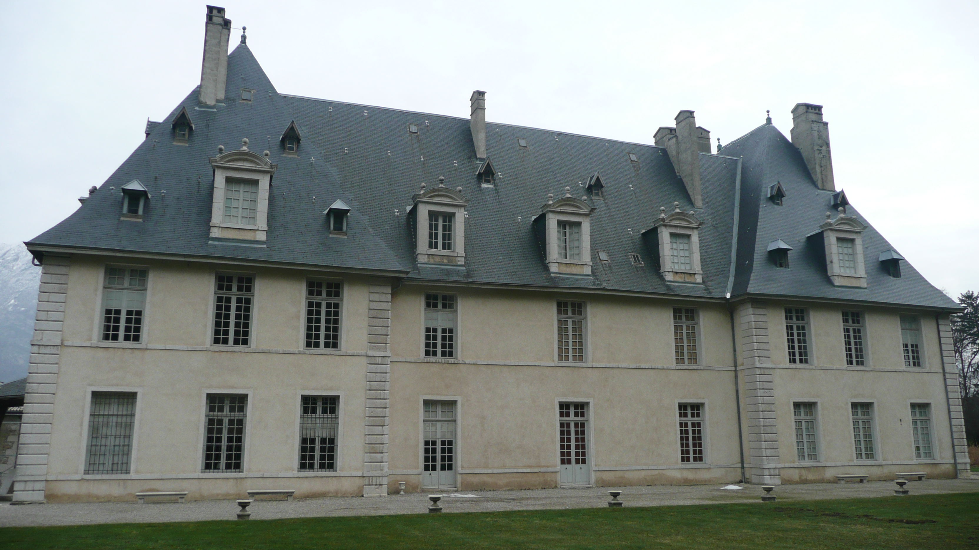 Chateau de Sassenage, near Grenoble